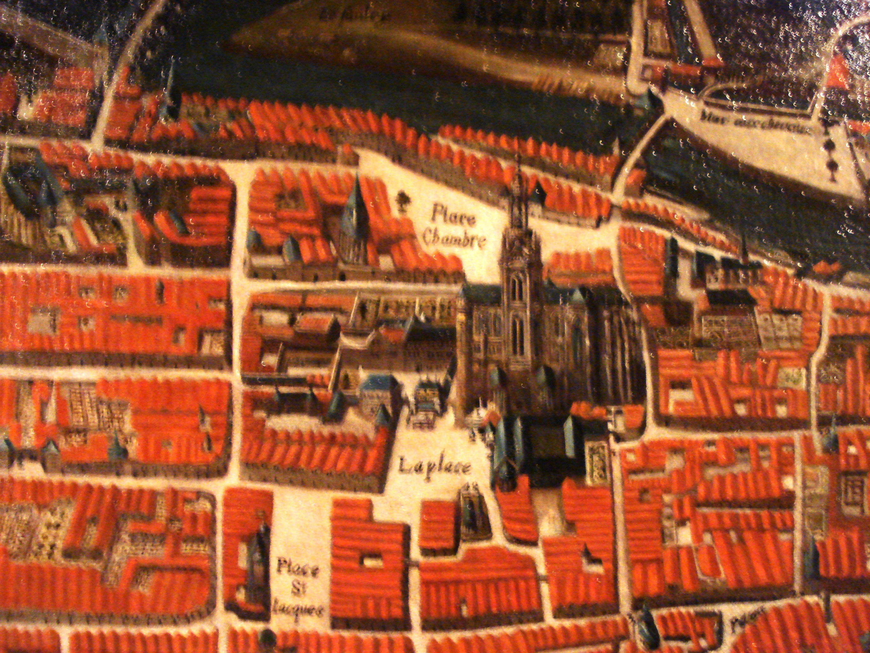 Painting of Metz circa XVIIth century. detail